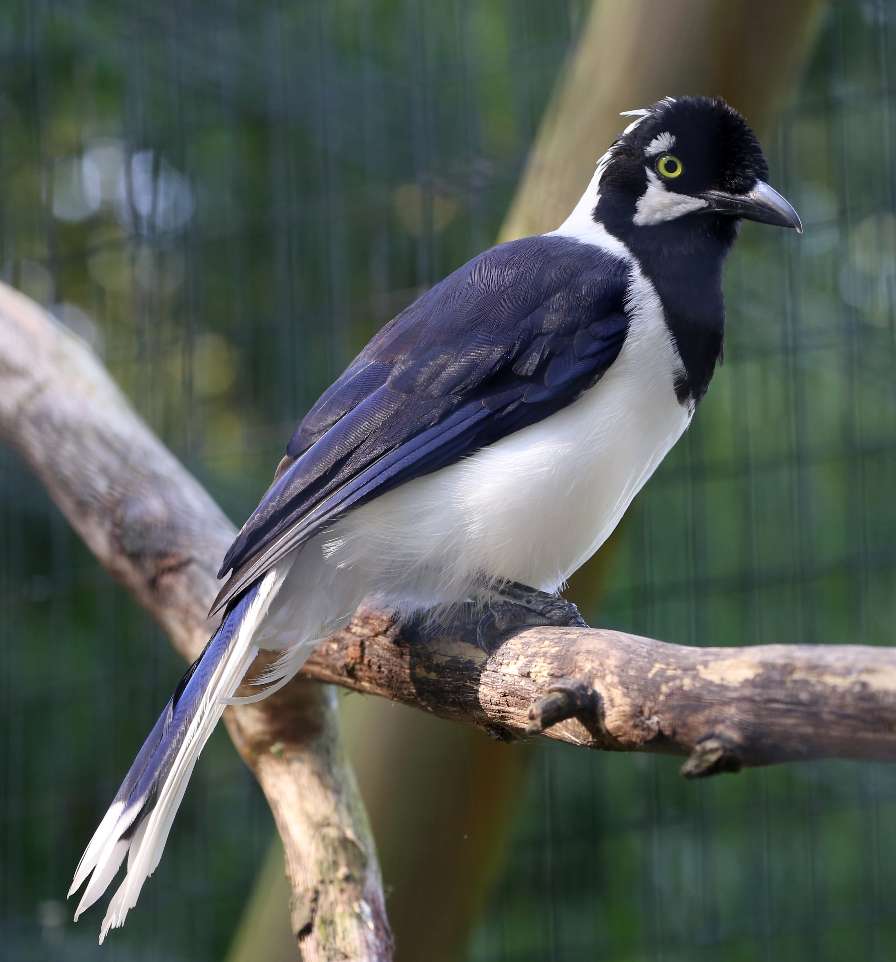 Nacktwangen-Blaurabe (Cyanocorax mystacalis) im Wildpark Poing